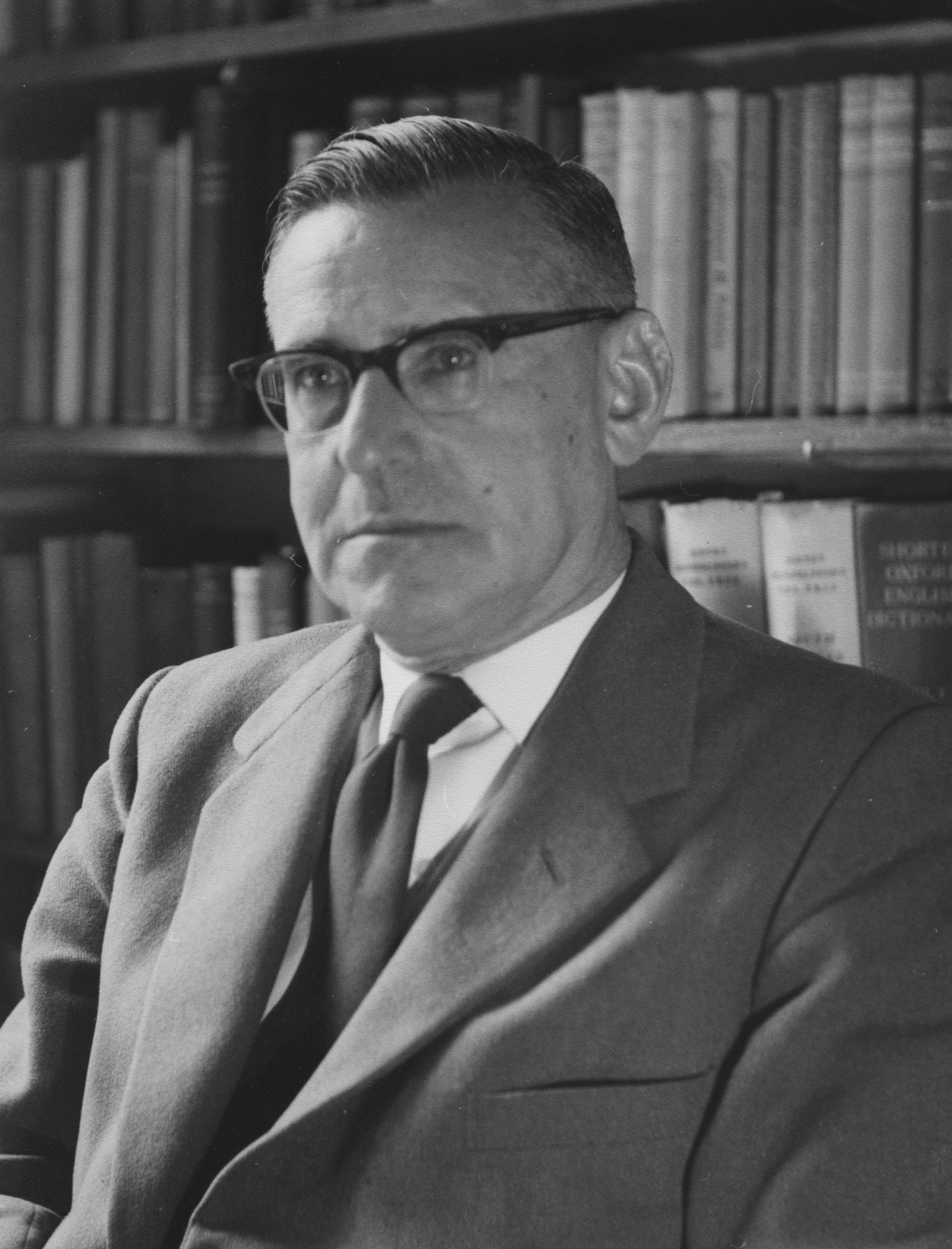 Professor of Anthropology, LSE, 1950-69 IMAGELIBRARY/615 Persistent URL